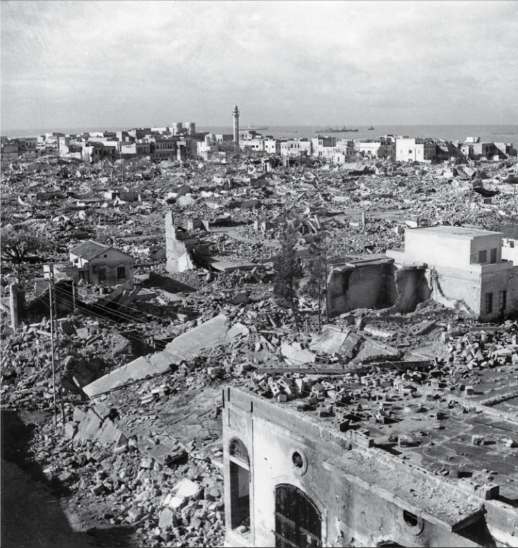 Manshyeh neighbourhood in Jaffa after the Israeli war of independence